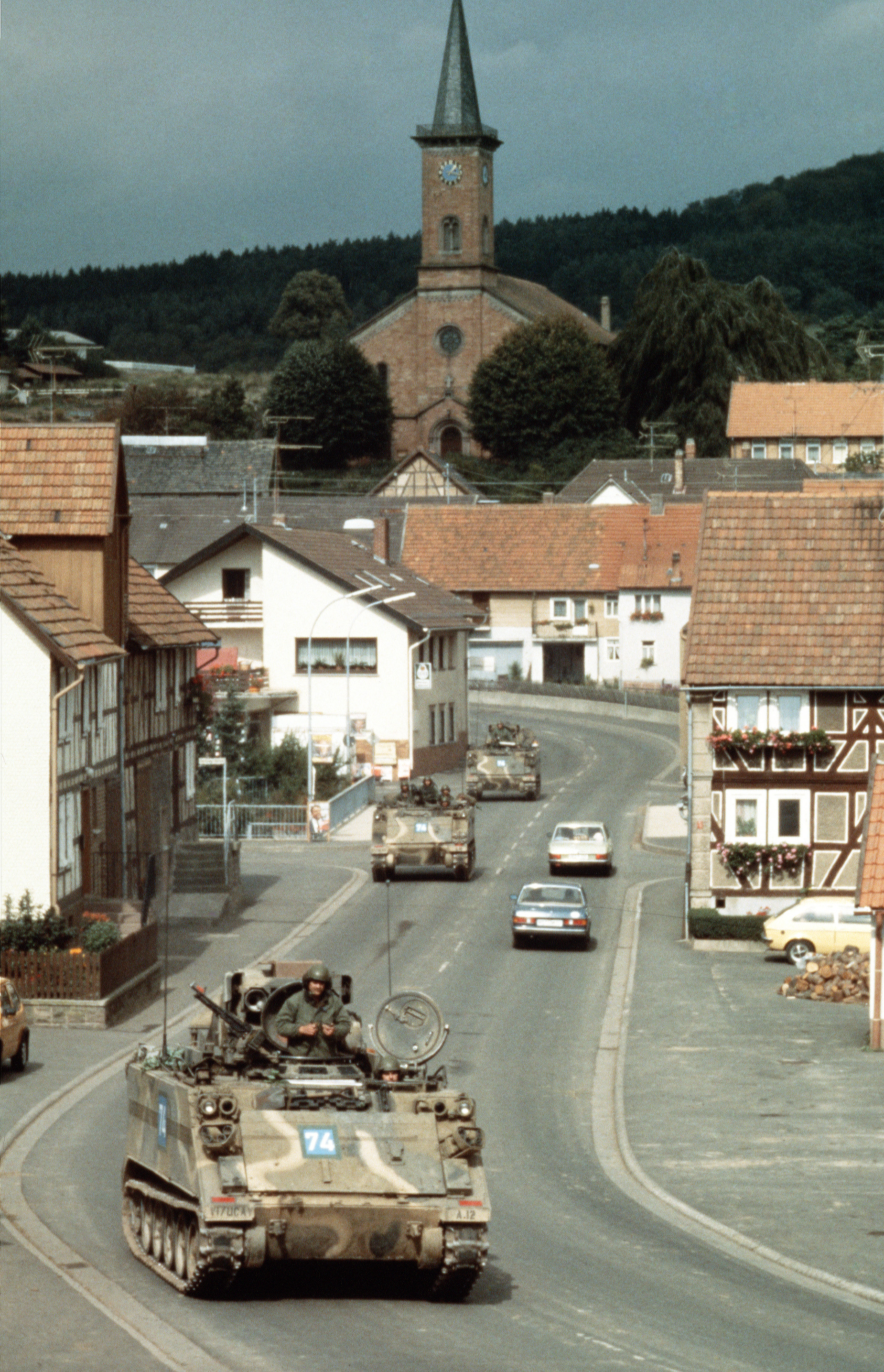 M113 armored personnel carriers move through the town of Stockhausen (Herbstein) during REFORGER '83 in Germany.